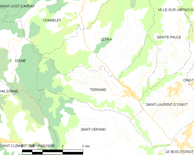 Map of French municipality